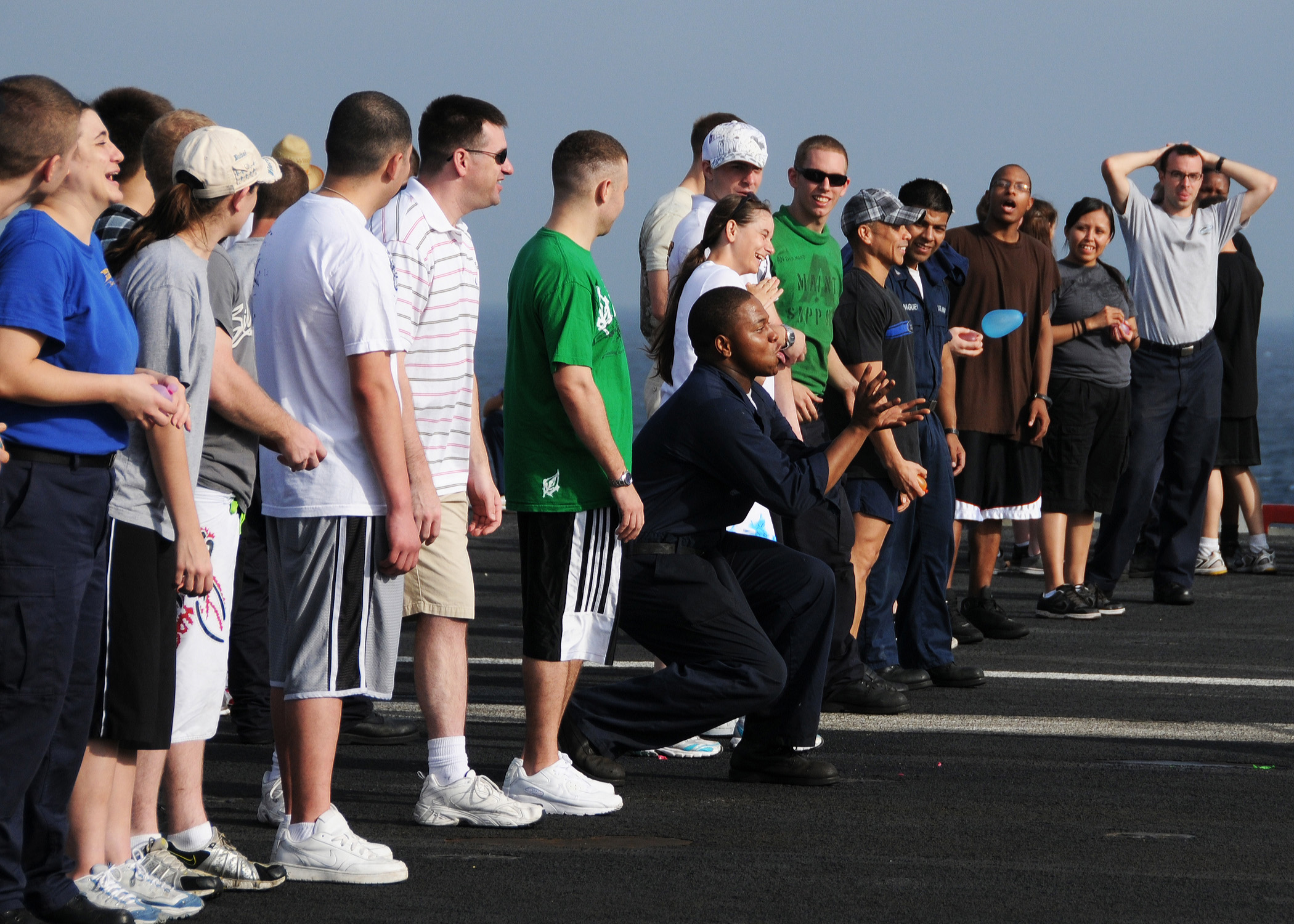 NORTH ARABIAN SEA (Aug. 22, 2008) Sailors aboard the aircraft carrier USS Abraham Lincoln (CVN 72) enjoy a water balloon toss game on the flight deck during a steel beach picnic. Lincoln is deployed to the U.S. 5th Fleet area of responsibility supporting Operations Iraqi Freedom and Enduring Freedom as well as maritime security operations. (U.S. Navy photo by Mass Communication Specialist 3rd Class Geoffrey Lewis/Released)